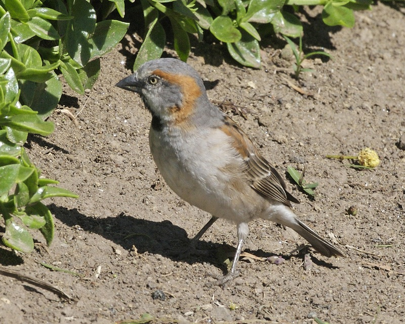 Kenya Sparrow in Nakuru, Kenya Kiswahili: Shomoro Mwekundu